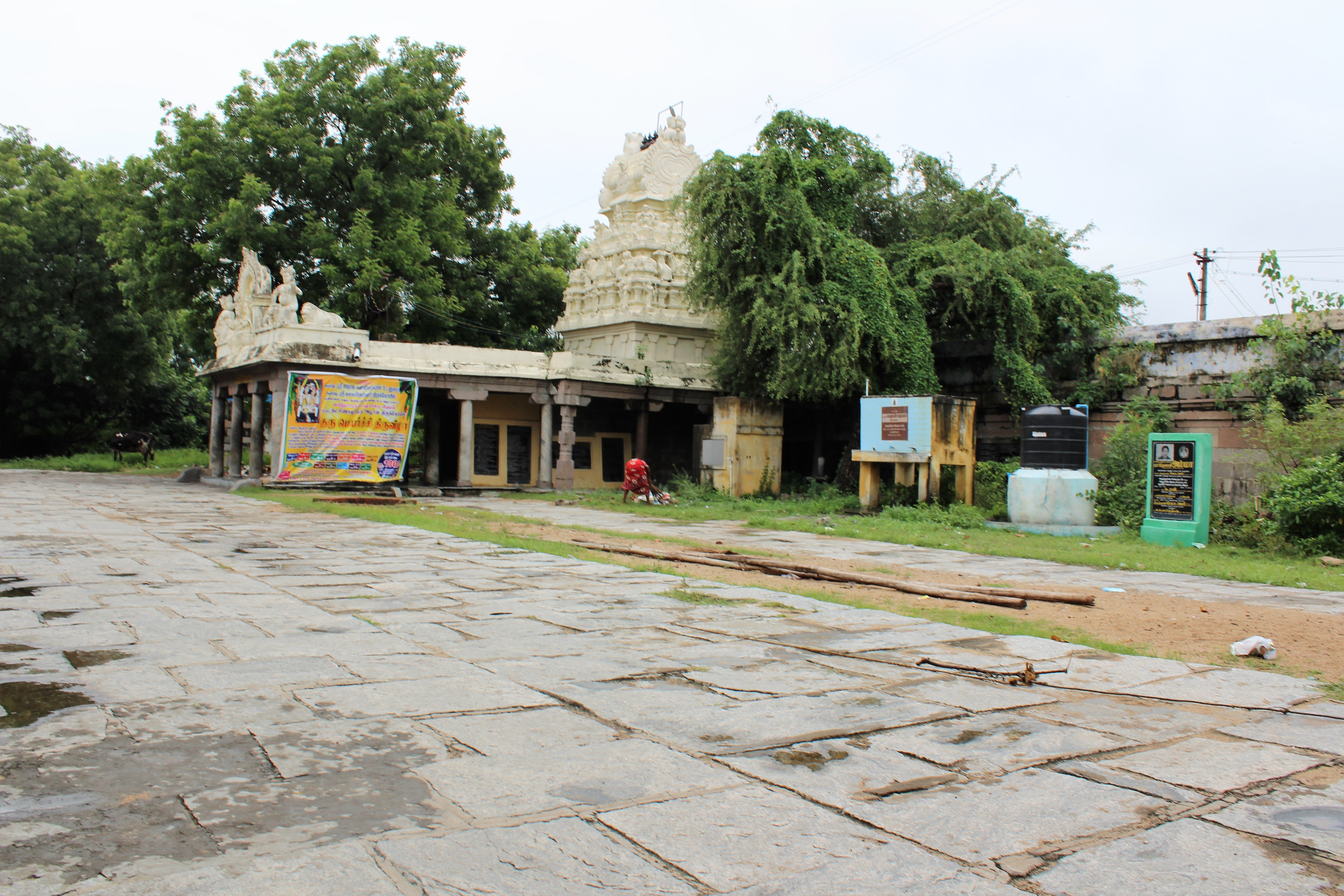 Jalandeeswarar temple, Thakkolam